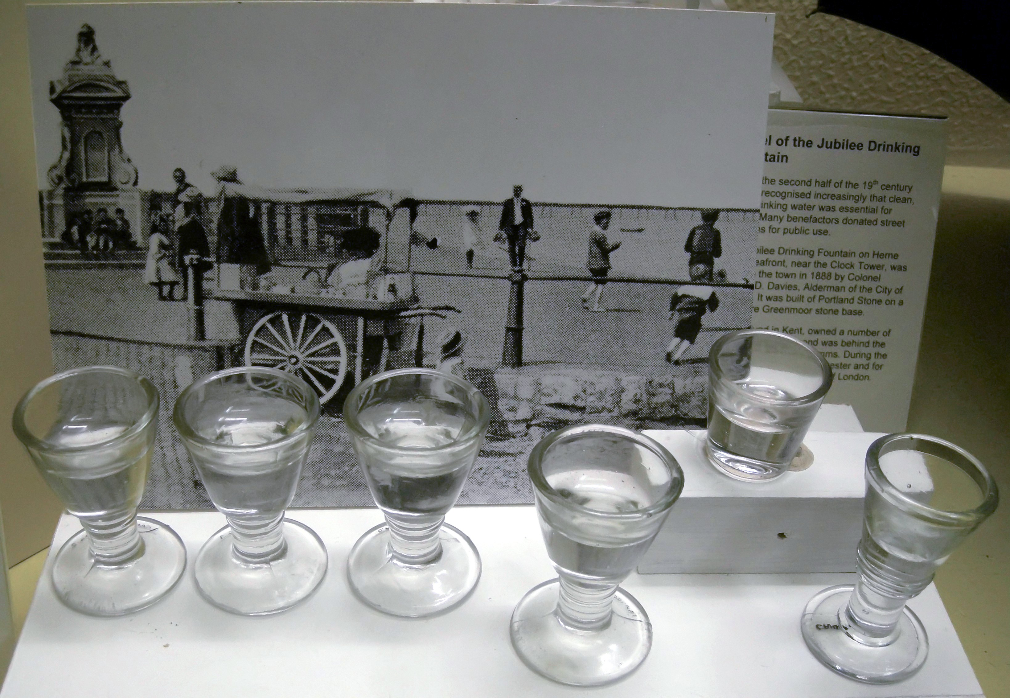 19th century penny lick glasses for ice cream at Herne Bay Museum and Gallery. They were banned in 1926 due to health concerns.